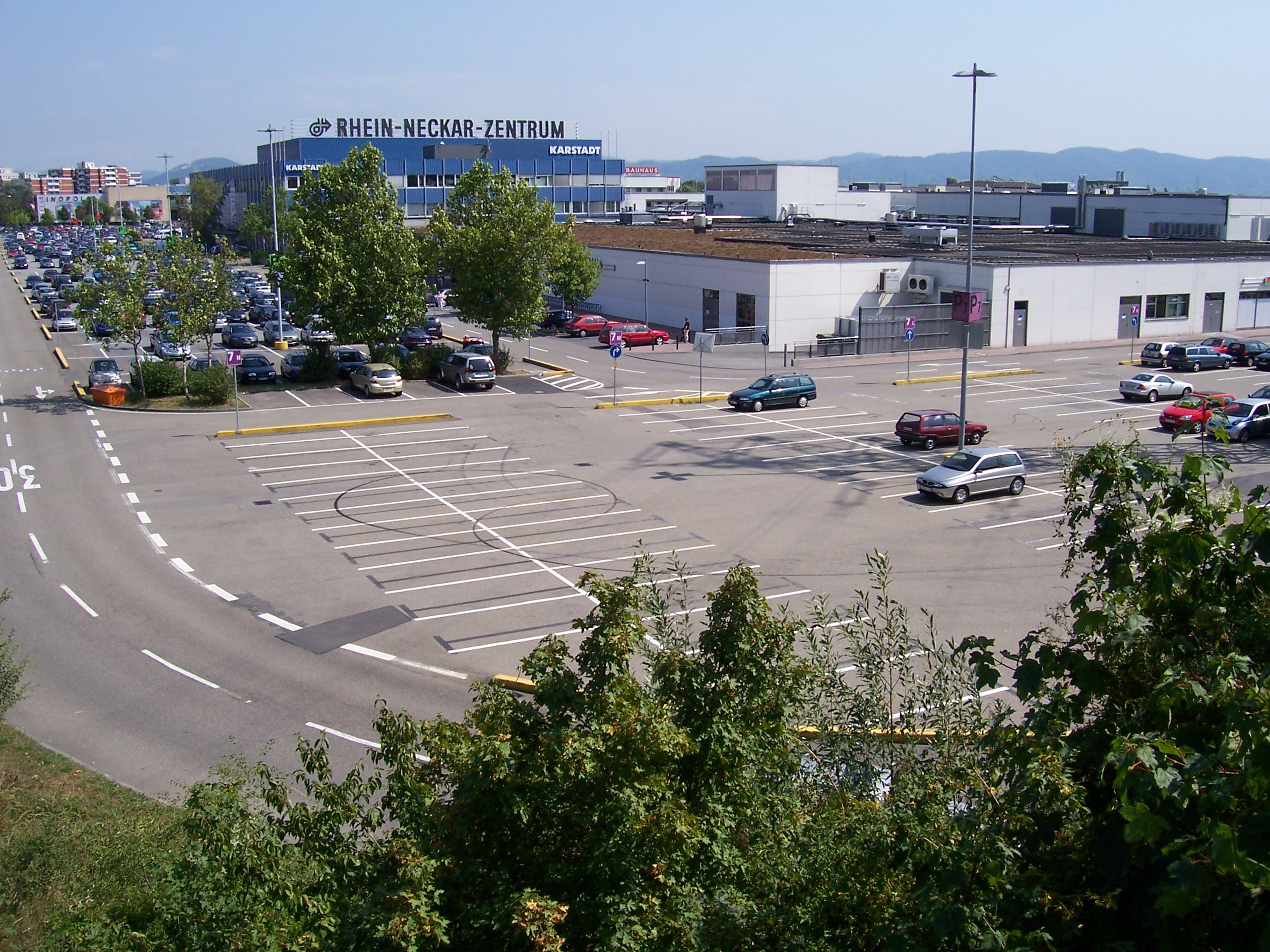 Das Rhein-Neckar-Zentrum in Viernheim, Germany My own photo from 2005-08-19